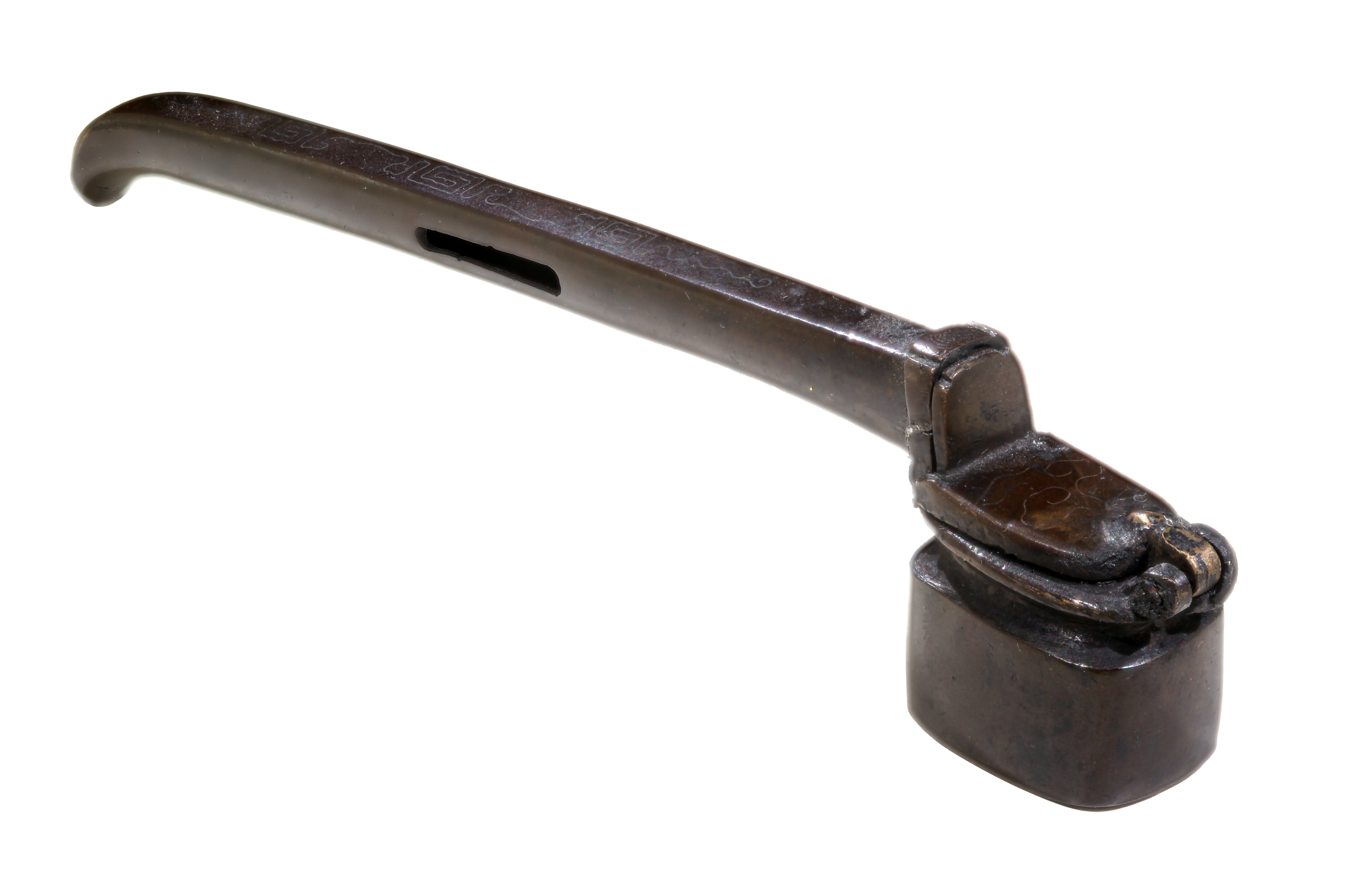 Yatate